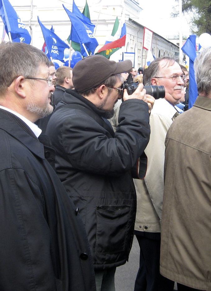 Former rector of Ryazan State Medcial Univercity Dmitry Romanovich Rakita Бывший ректор РязГМУ Дмитрий Романович Ракита на первомайской демонстрации 2009 года